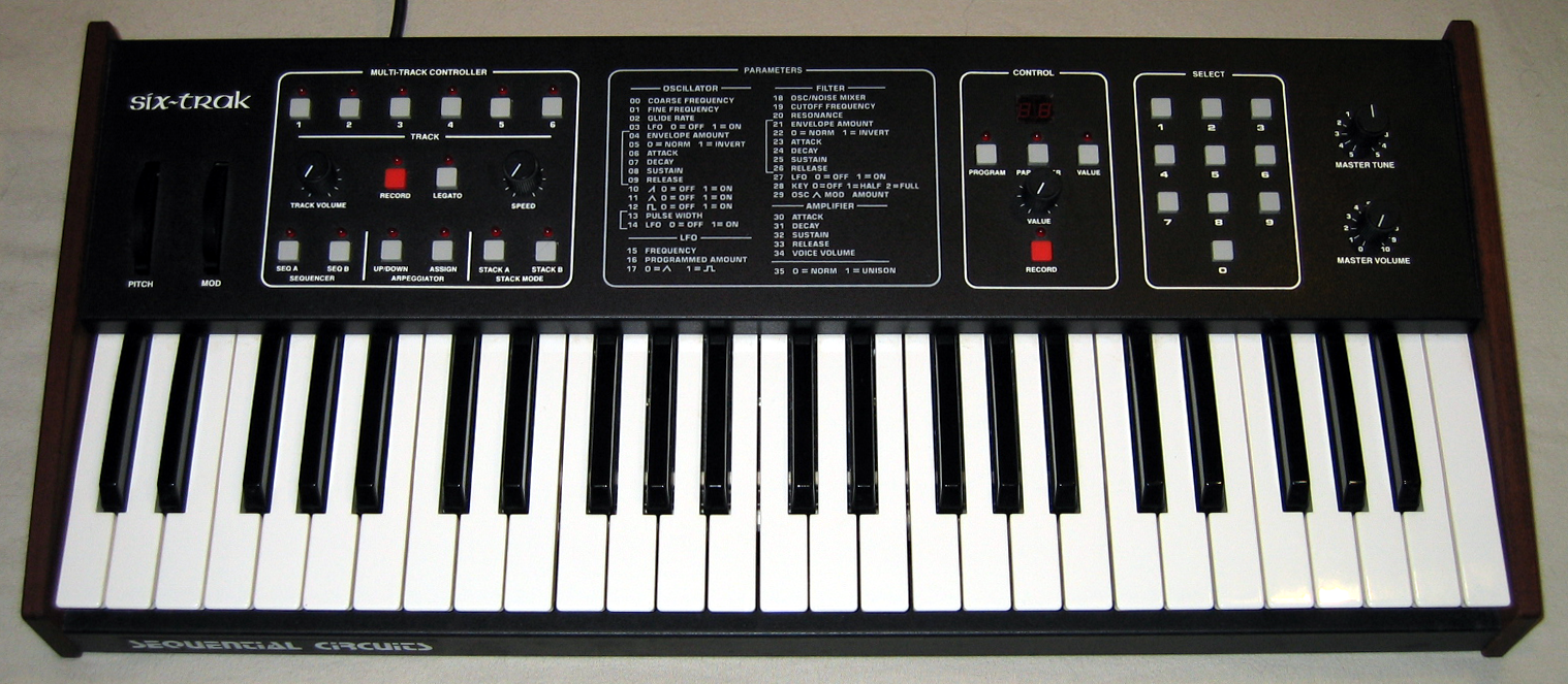 A photograph of the front of a Sequential Circuits Six-Trak synthesizer.